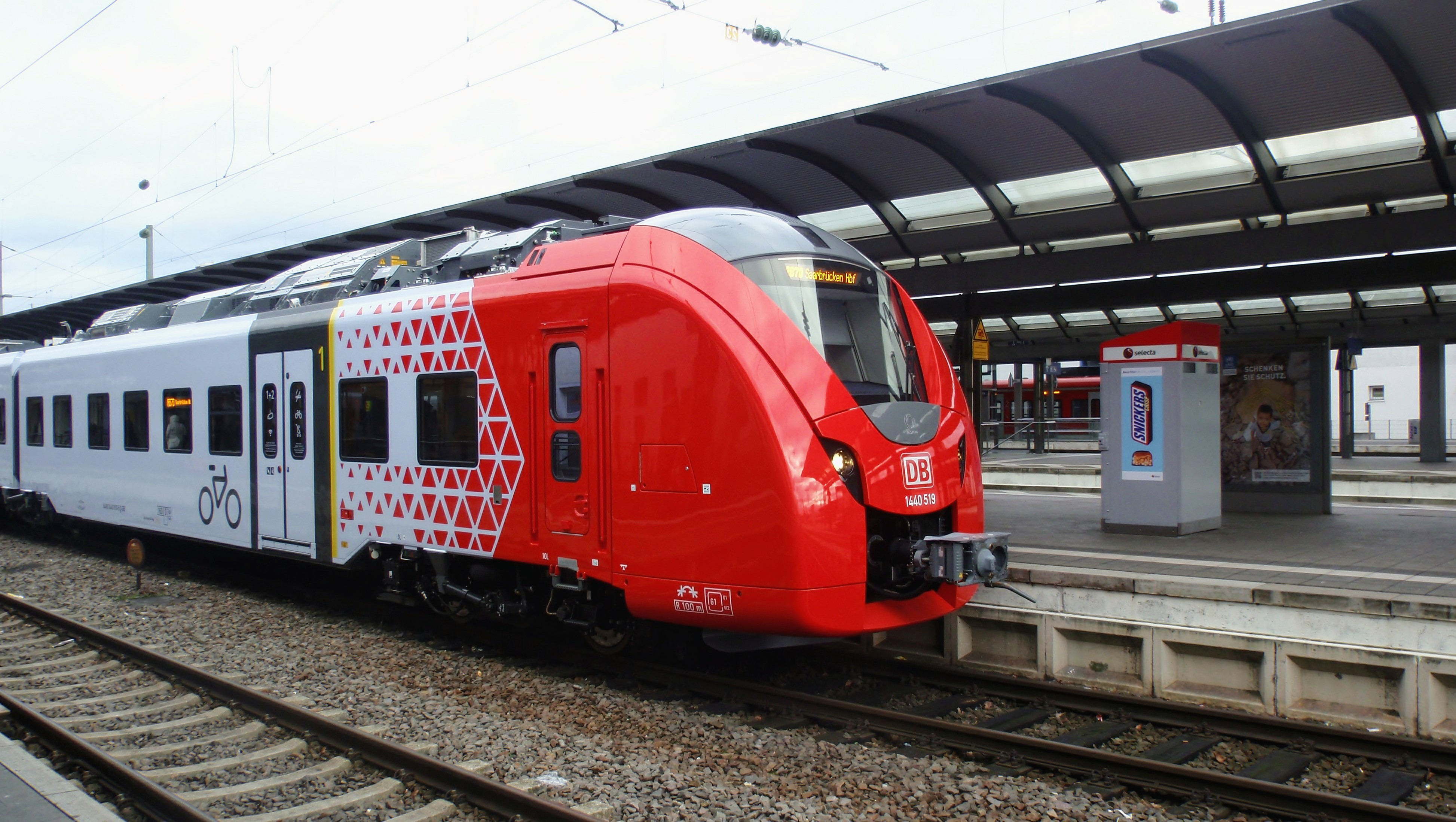 Alstom Coradia Continental (Germany: Class 1440) at Kaiserslautern main station